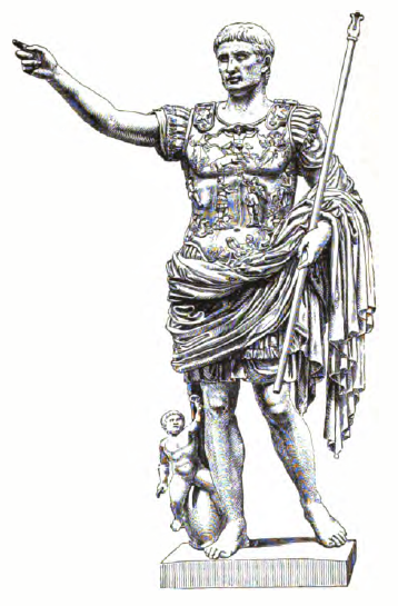 Drawing of statue of emperor Augustus in Vatican, illustration to an article in Otto's encyclopedia (in Czech)